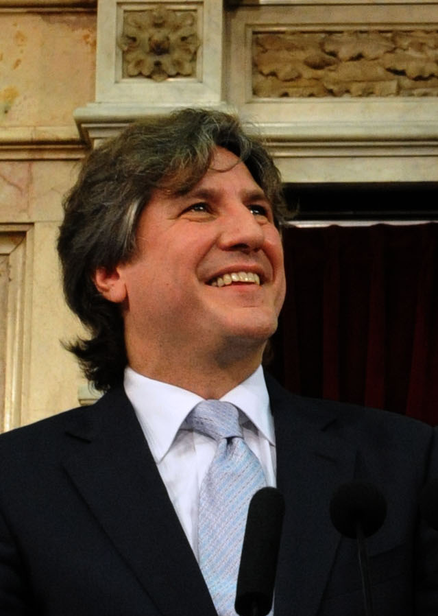 Vice President Amado Boudou and President Cristina Fernández de Kirchner at the Inauguration day.